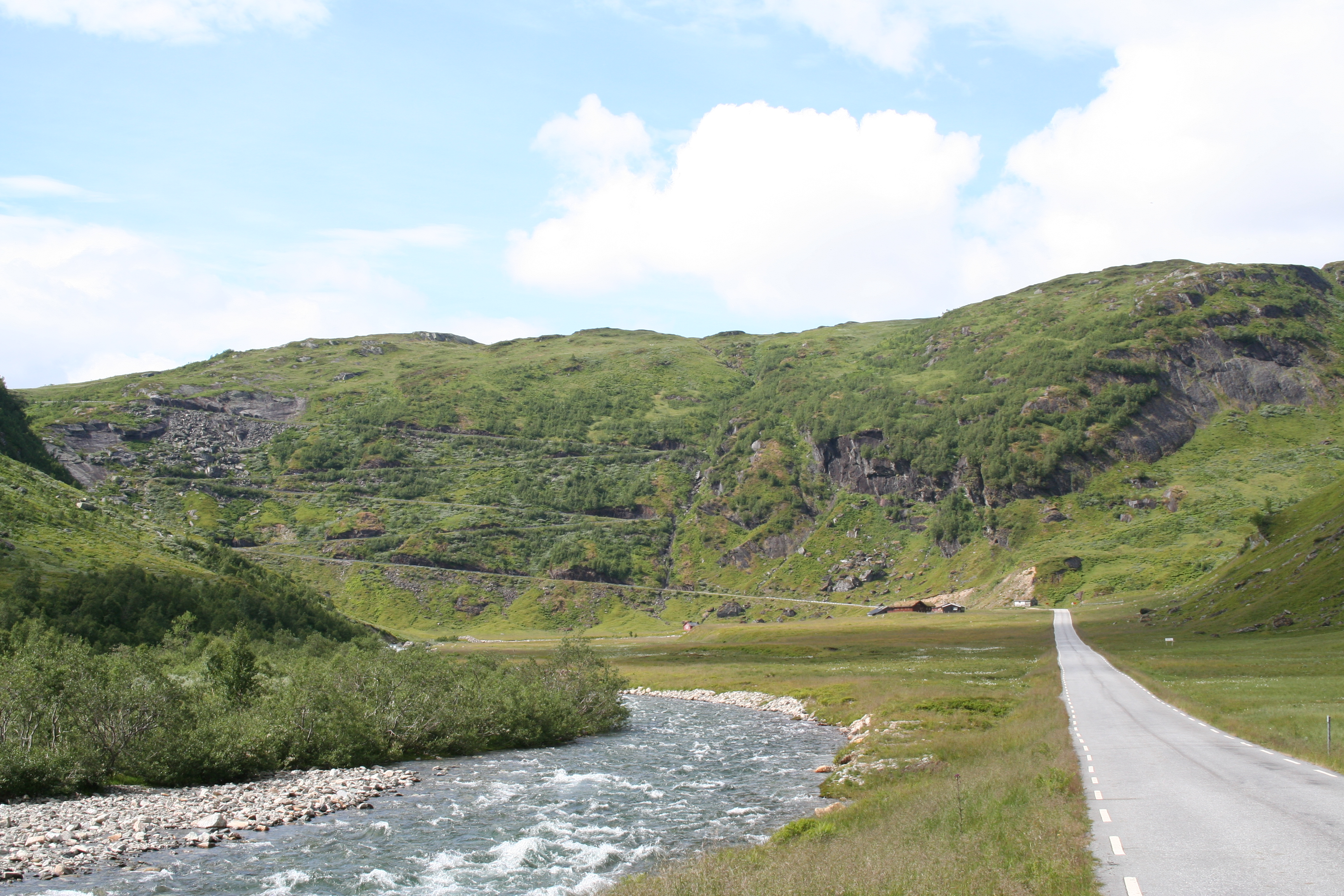 The picture shows the upper part of Kvassdalen in Voss municipality in Hordaland county in Norway, not far from the county border to Sogn og Fjordane. The Rv 13 road and the switchbacks up towards Vikafjellet can be seen. The picture is taken northwards.